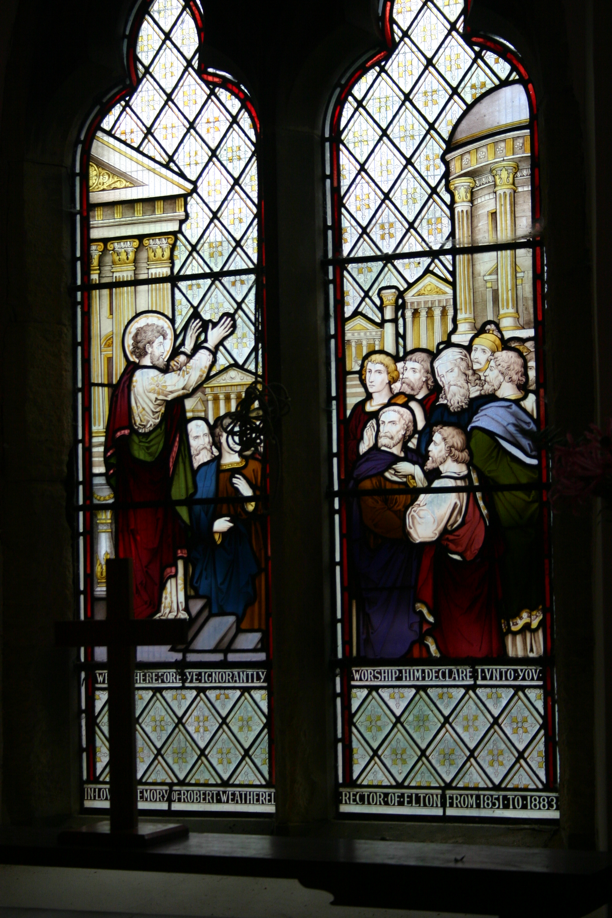 A photograph of the main stained glass window in Elton church taken from inside the church.